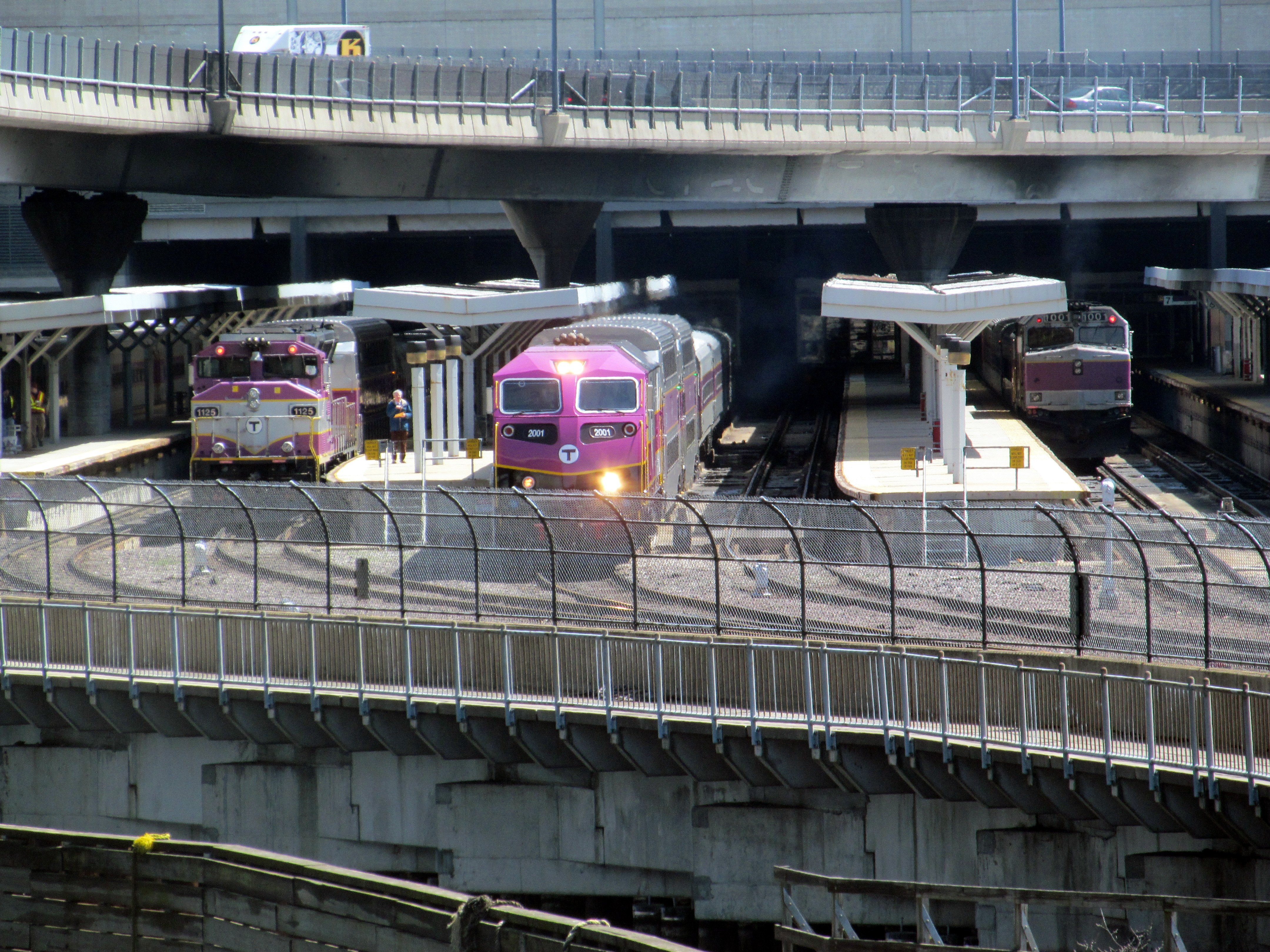 MBTA locomotive #2001 leaves North Station towards the MBTA Commuter Rail Maintenance Facility after its first revenue round trip